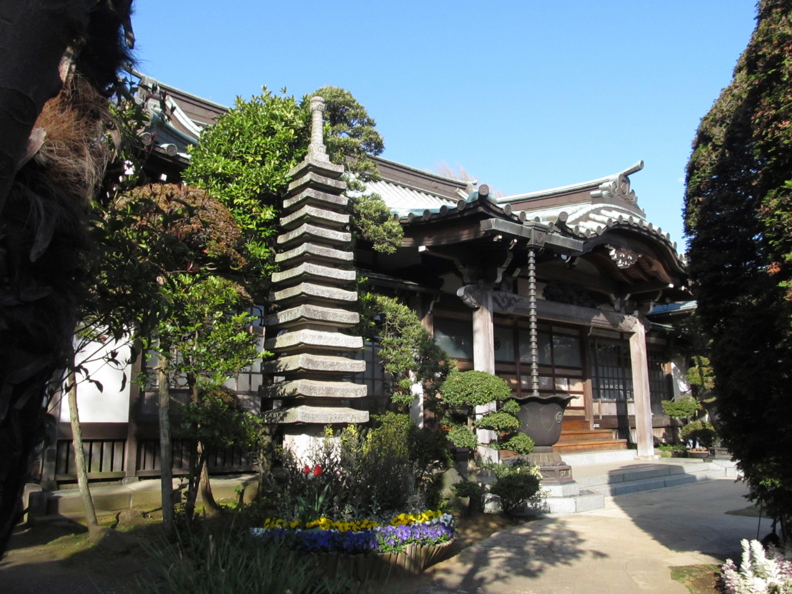 Shintoku-ji in Fujisawa City, Kanagawa Prefecture, Japan